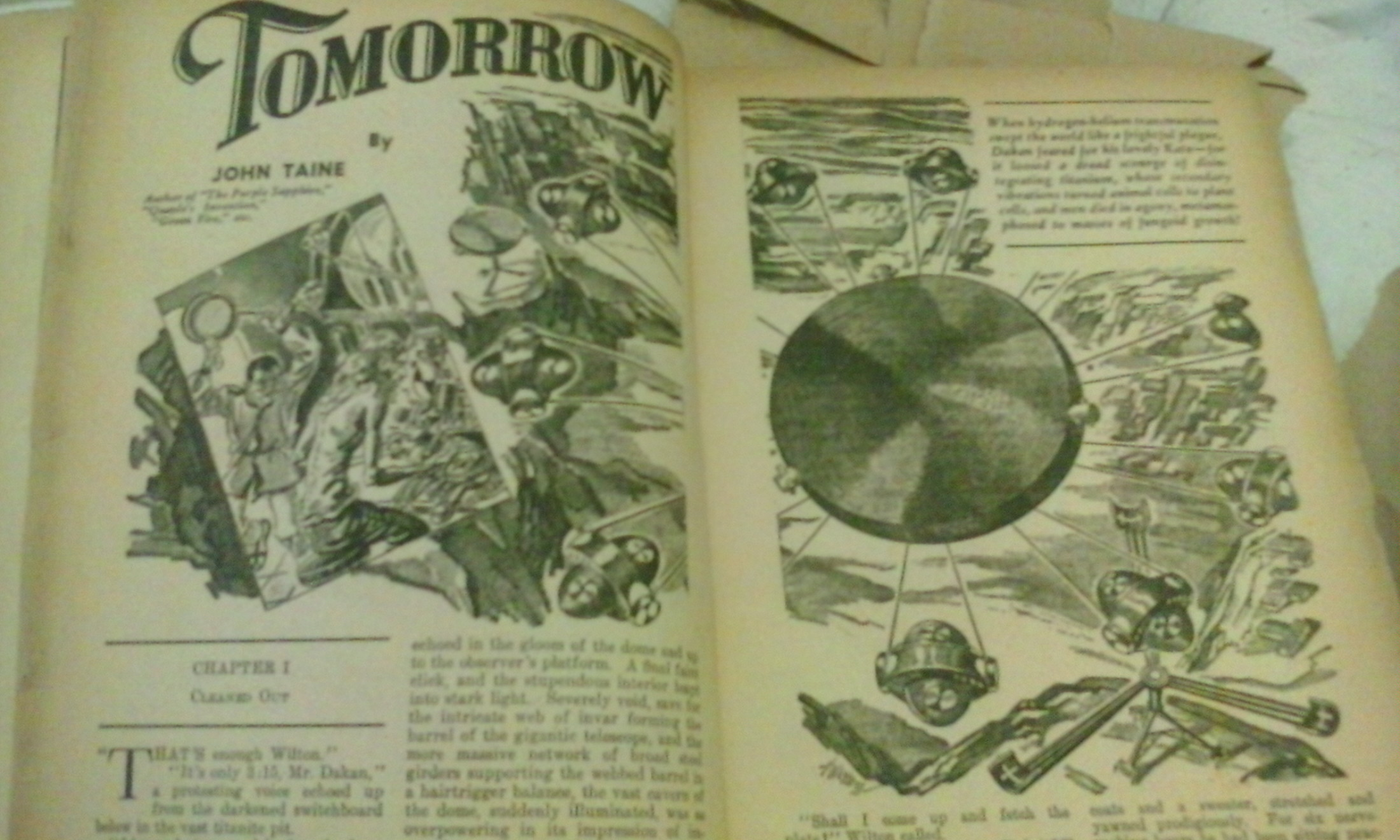 Interior illustration from the April-May 1939 issue of Marvel Science Stories for the story Tomorrow by John Taine (alias of Eric Temple Bell). Art by Wesso Colours have been adjusted against the original (this is far more accurate than the original scan), the long crease/tears removed, and general cleanup. The "TOM" of Tomorrow at the top had to be partially reconstructed due to particular damage to that section. Some stamps of a foolish bookseller were removed.